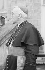 The Official Visits To the Western Front, 1914-1918 Cardinal Francis Bourne, the Head of the Catholic Church in England and Wales, at Rouen, 27 October 1917.